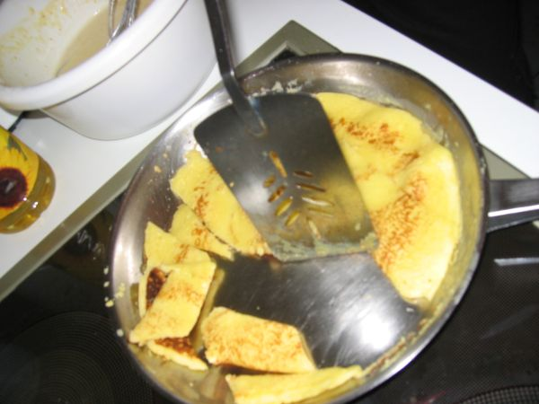 Austrian Dish Kaiserschmarrn